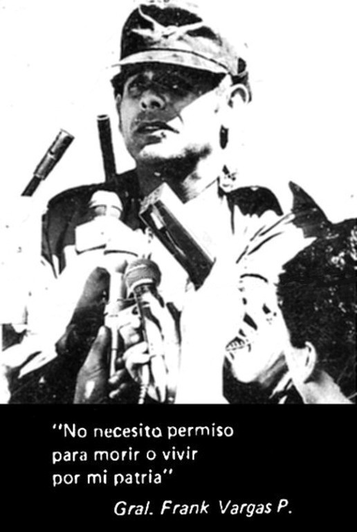 Lieutenant General Frank Vargas Pazzos, of the Ecuadorian Air Force - Rebellion of 1986.